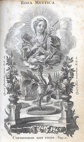 Devotional depiction of Virgin Mary as rose